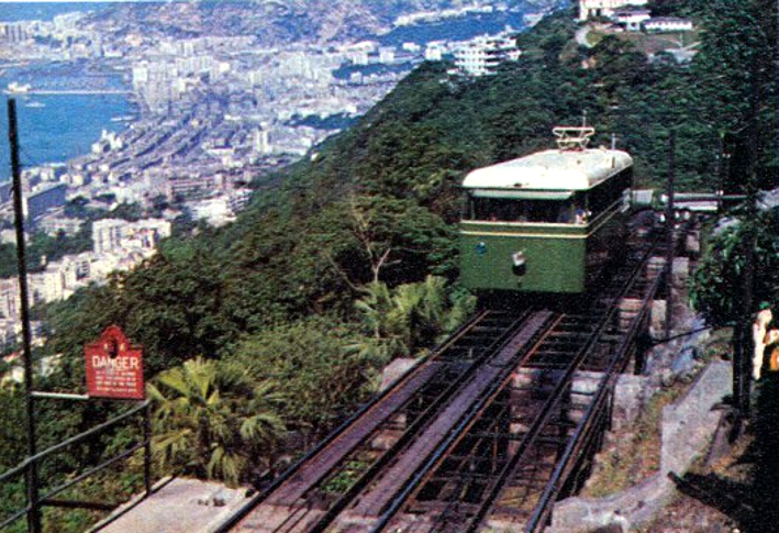 View of Peak Tram railcar in Hong Kong, in 1972-1973.